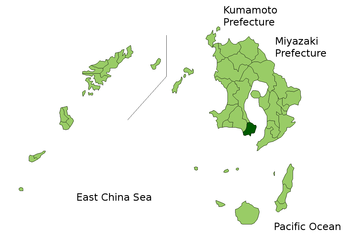 Location Map of Ibusuki in Kagoshima Prefecture, Japan